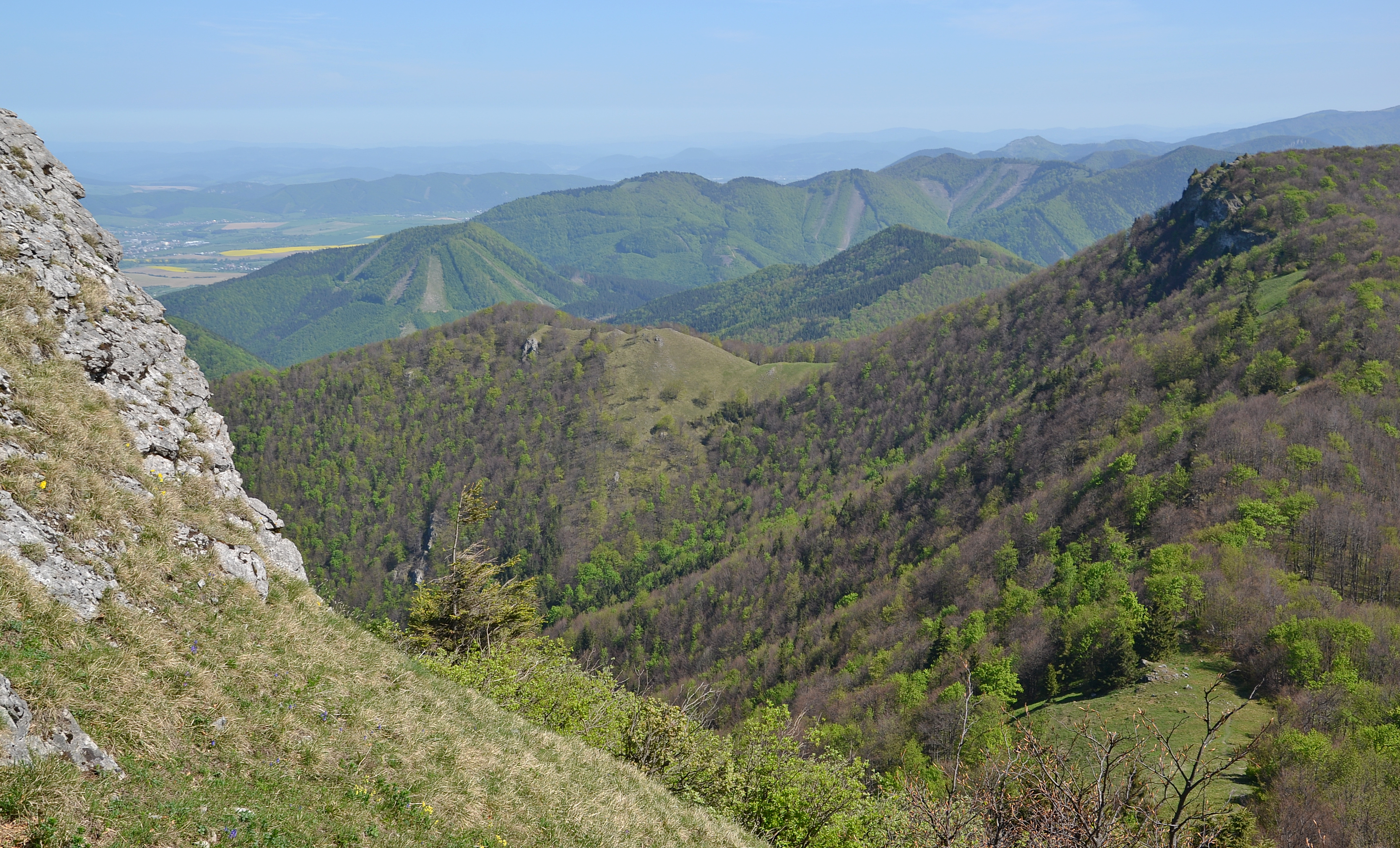 View from Kľak, Malá Fatra, Slovakia